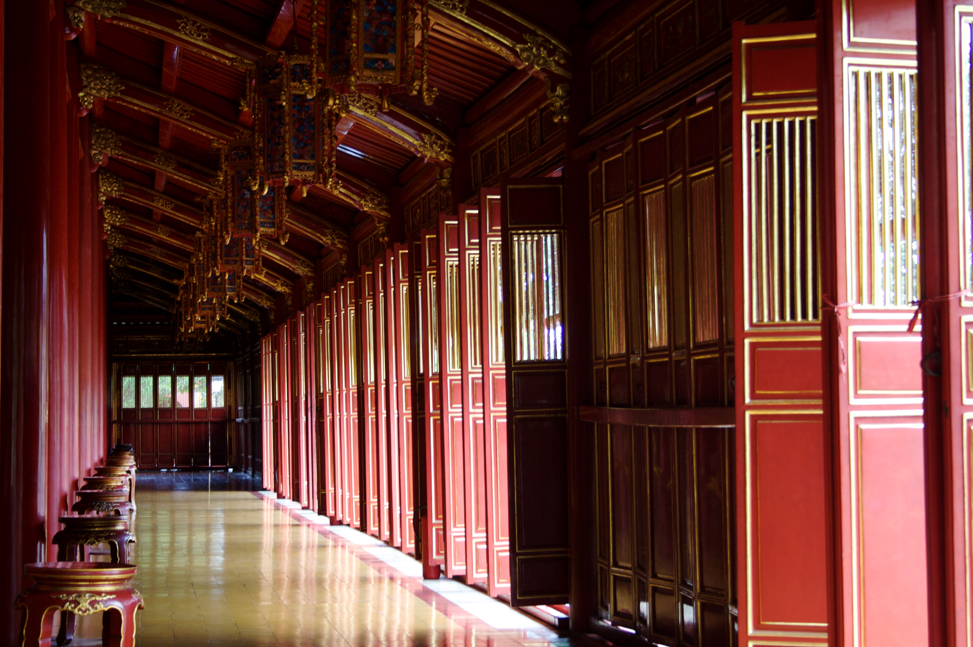 Citadel of Huế